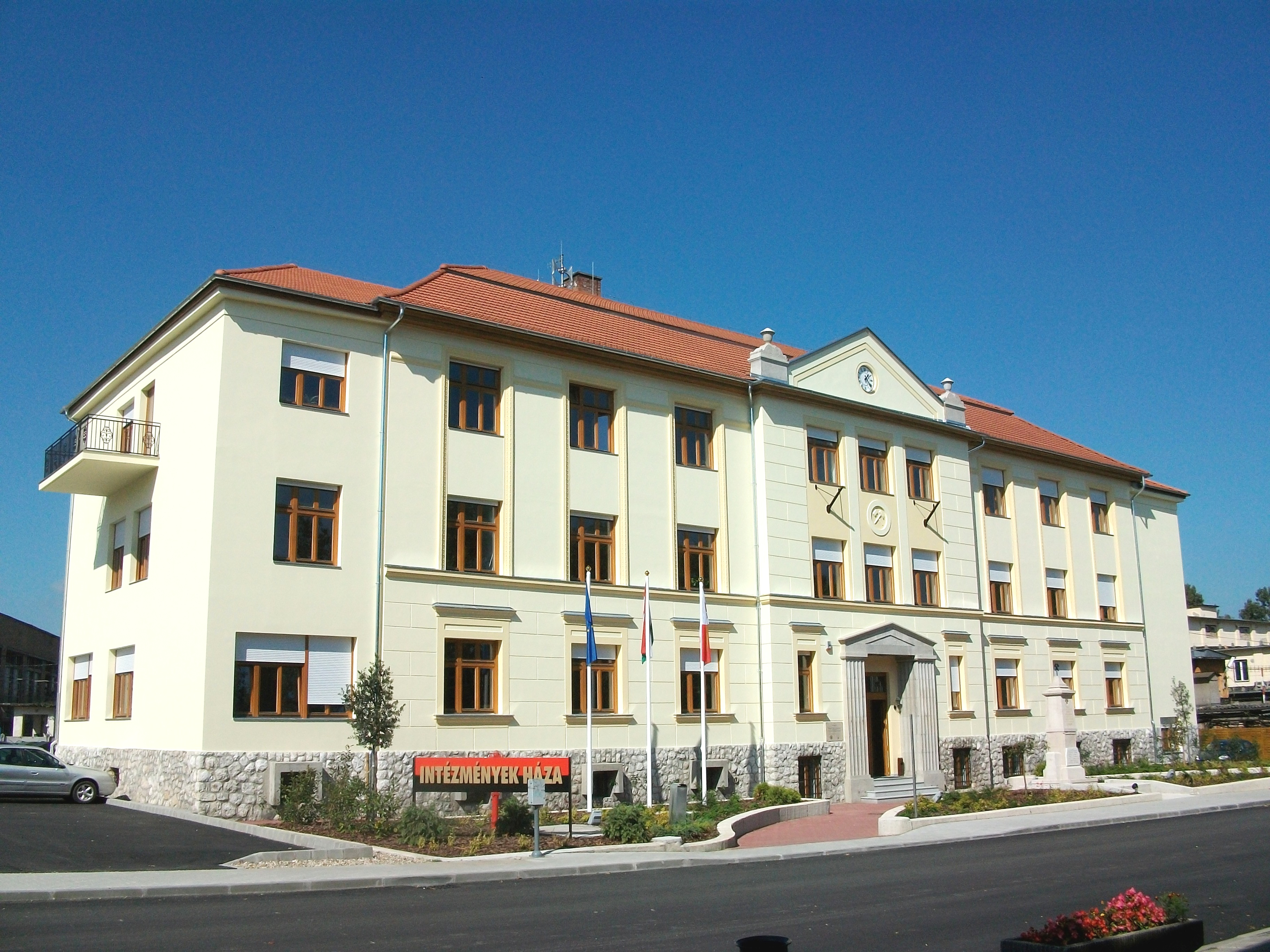 House of Municipal Institutes, Dorog, Hungary (former headquarters of the Dorog Mining Company)